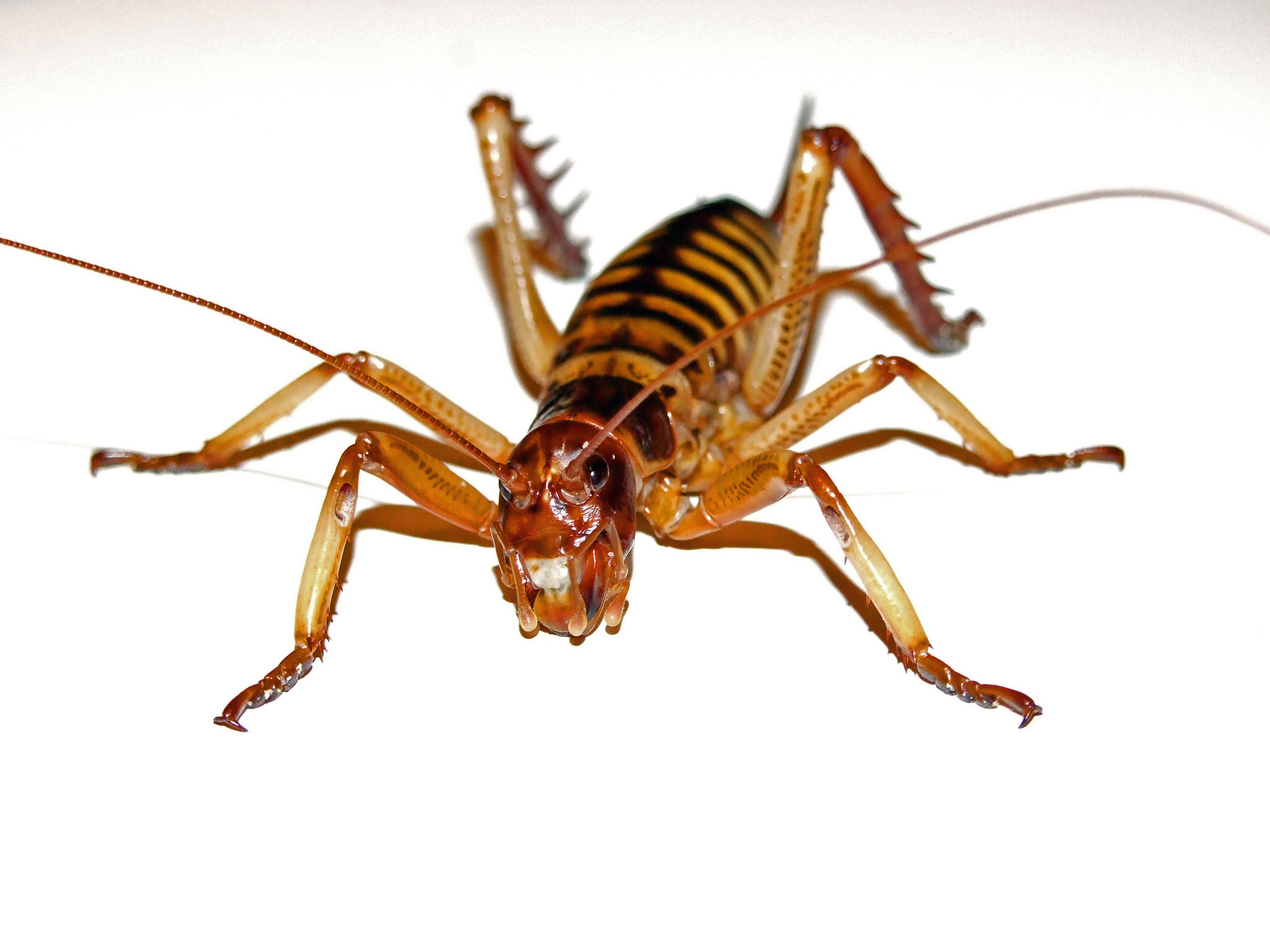 Tree Weta, female